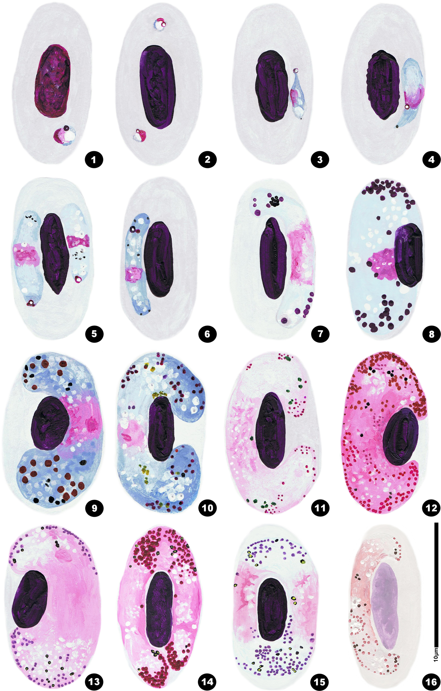 Haemoproteus syrnii Figures 1-16 from article: Drawings of erythrocytic stages of Haemoproteus syrnii in the blood of Strix aluco. 1–4: young trophozoites with an initial volutin granule; 5: two young gametocytes with 1 or 2 volutin granules attached to the initial granule; 6–7 young gametocytes; 8–10 mature macrogametocytes; 11, 13: mature microgametocytes; 12: old microgametocyte; 14: two microgametocytes within the same RBC; 15: a microgametocyte spread beneath the RBC nucleus; 16: microgametocyte with faded staining and where the volutin granules are still visible.